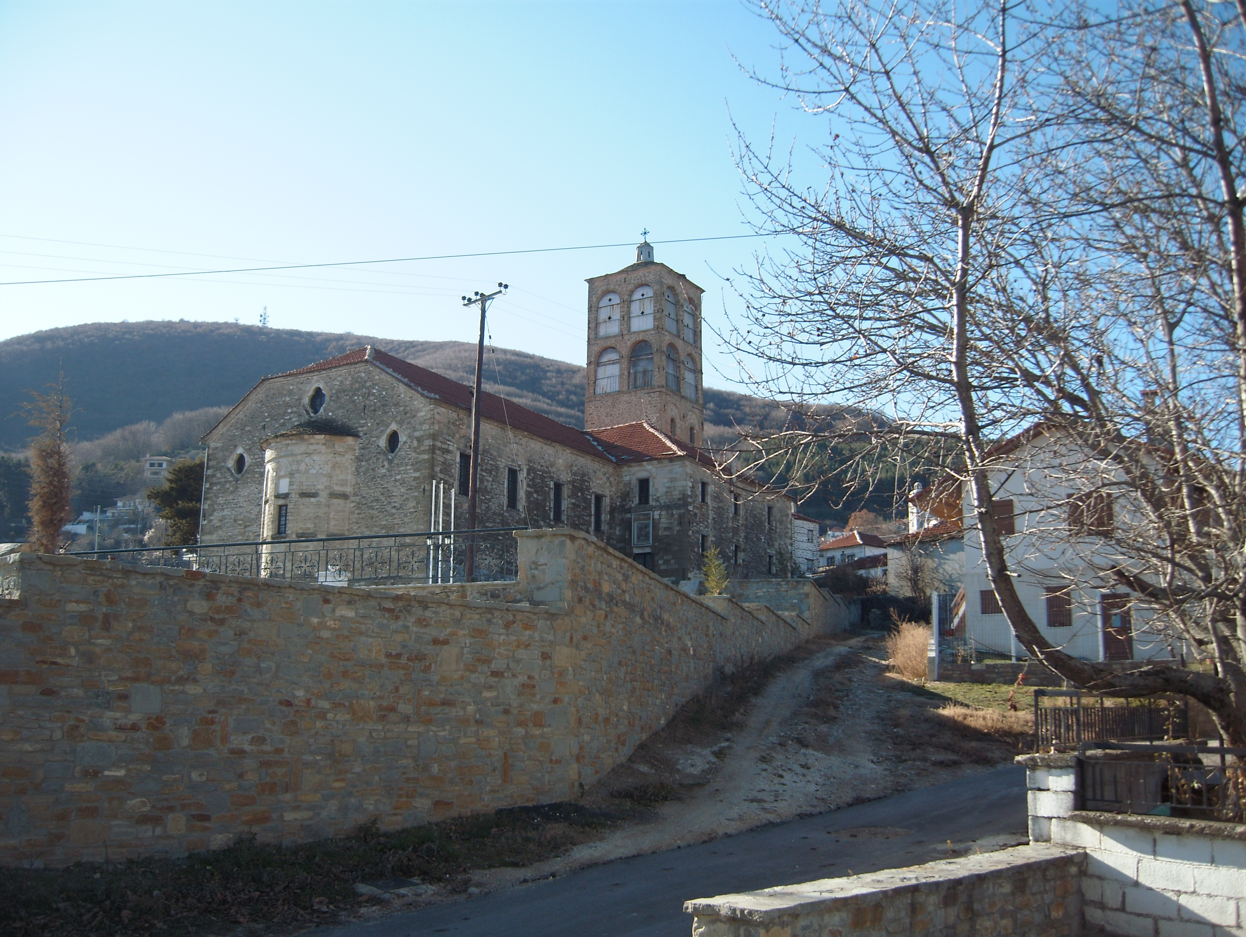 Klisoura